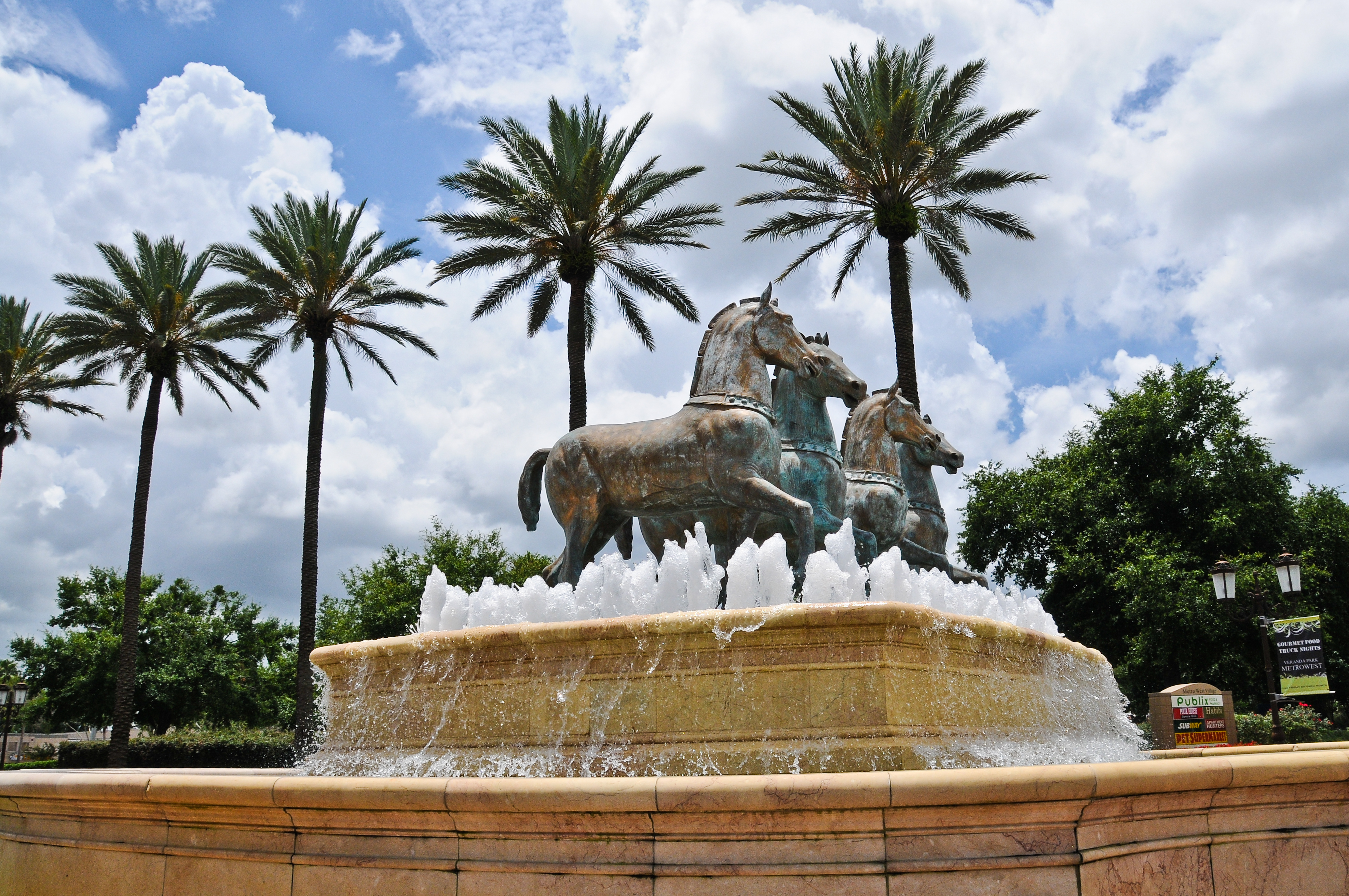 The fountain at the entrance to MetroWest Village and Veranda Park in orlando, Florida.